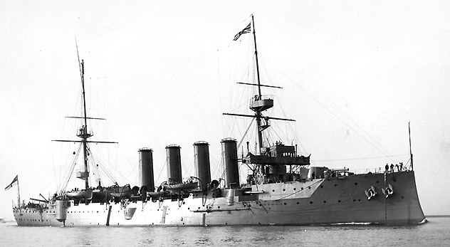 HMS Devonshire (British Armored Cruiser, 1904) Underway, prior to World War I.